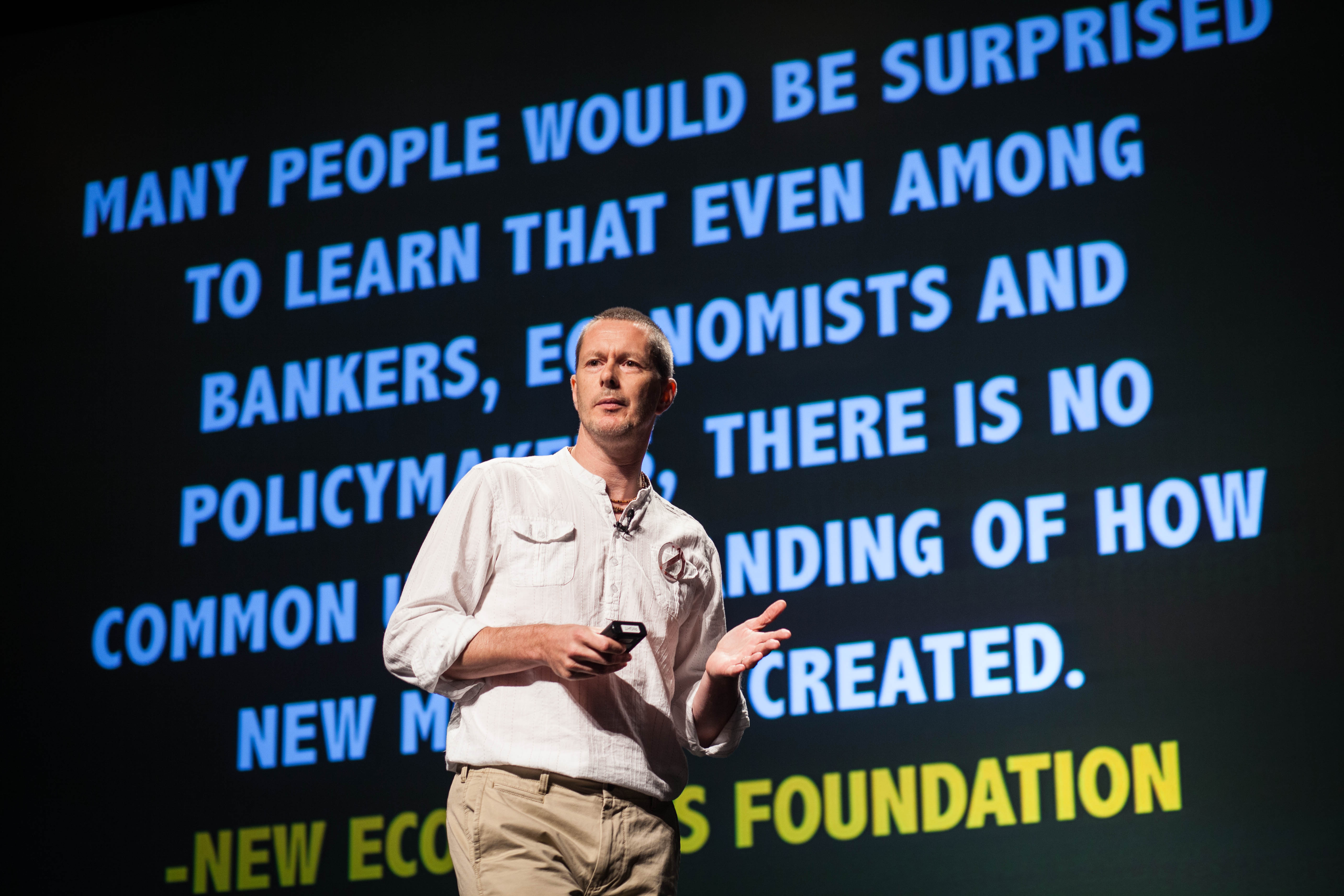 Ken Banks during the PopTech 2012 event at Camden Maine USA